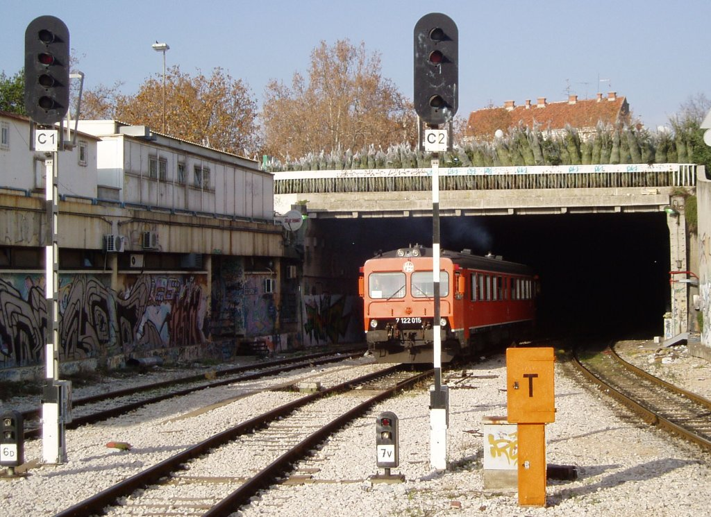 HŽ 7122 series train on the Split Suburban Railway